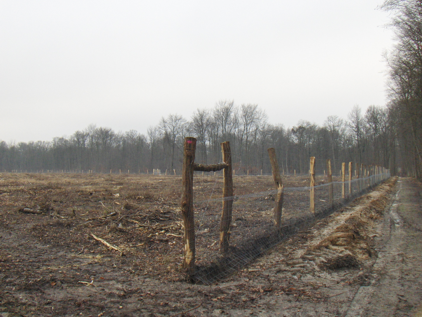 Fence building around an forest area which have been clearcut. Forêt de Chantilly, bois de la Basse-Pommeraie, Oise, France